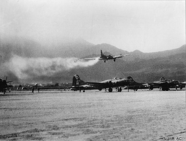 99th Bomb Group B-17 making an emergency landing in Italy, 1944